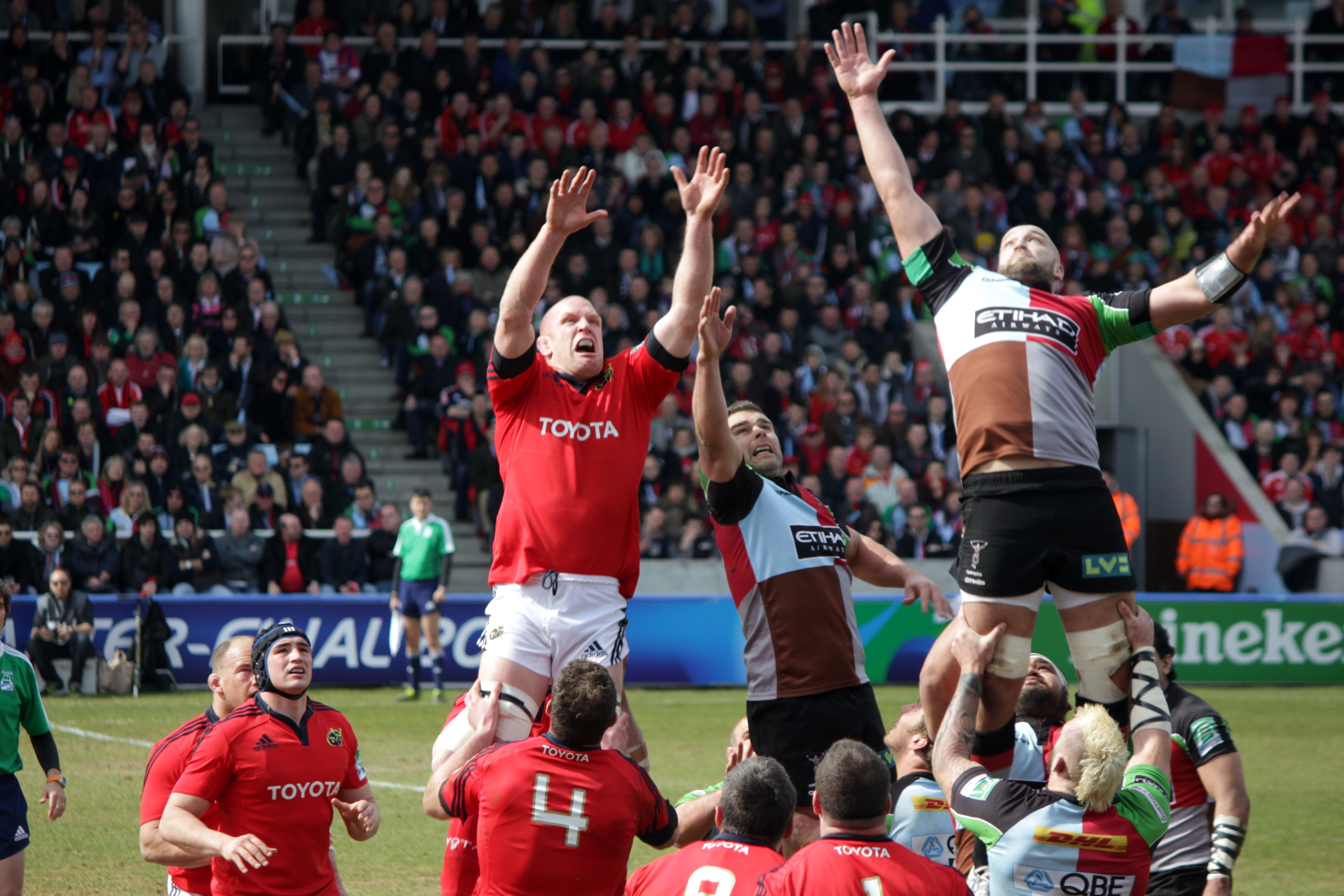 Munster Rugby Player Paul O'Connell rises to contest a lineout against Nick Easter of Harlequins.